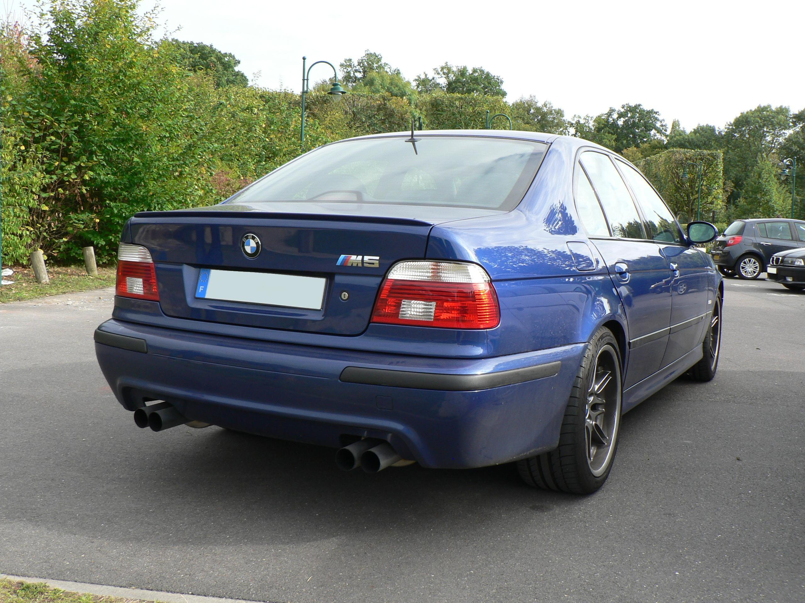 Rear view of a BMW M5 E39